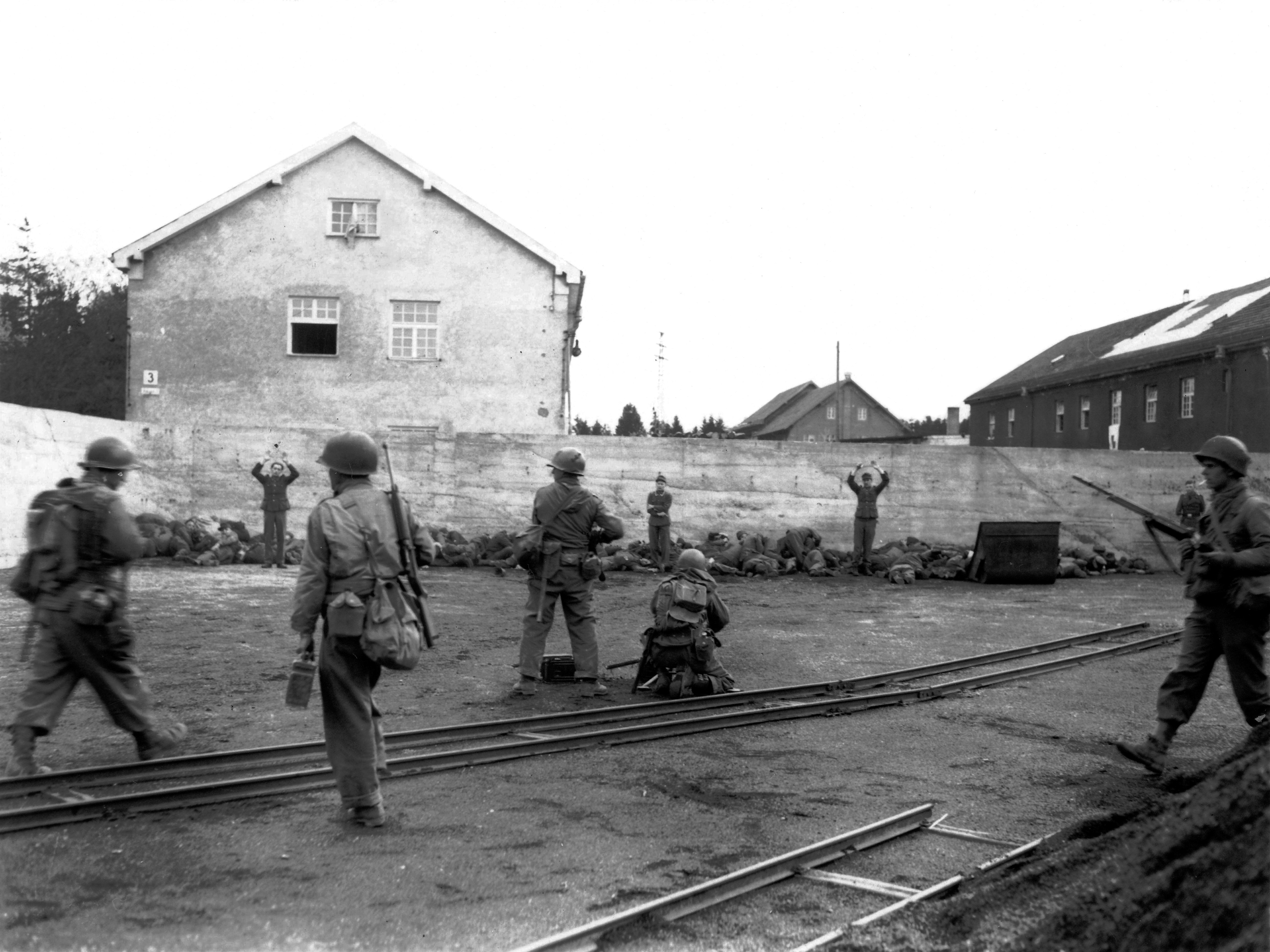 Dachau, Bavaria, Germany: This picture shows an execution of SS troops in a coalyard in the area of Dachau concentration camp during the liberation of the camp. III-SC 208765, Credit NARA.